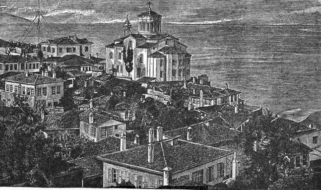 Picture of Trabzon with Saint Gregory of Nyssa Church.